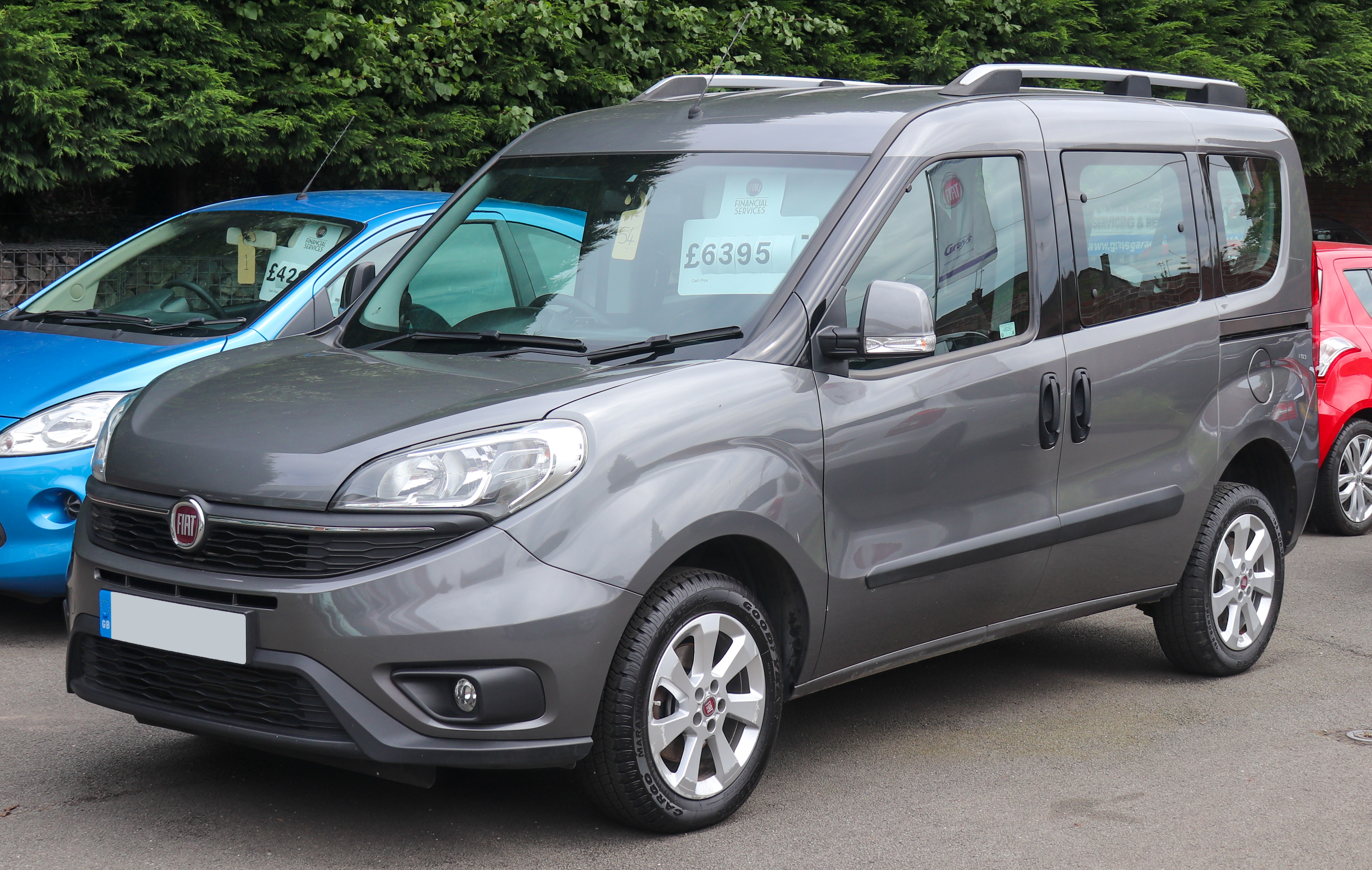 2016 Fiat Doblo Easy Multijet 1.6 Front Taken in Warwick